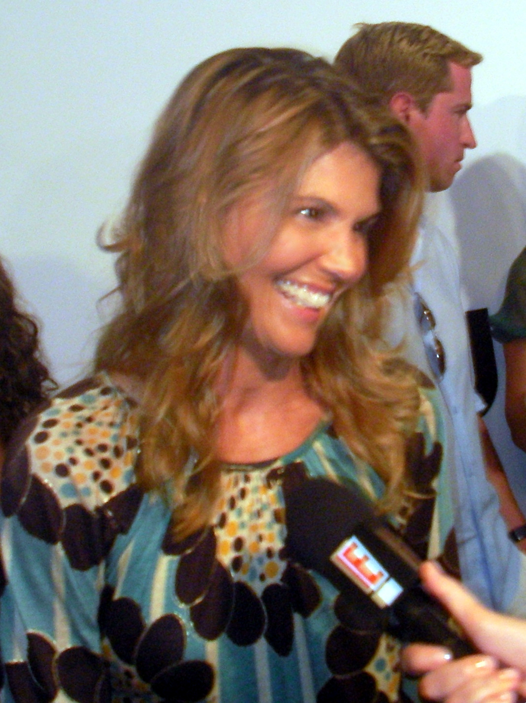 Premiere party for CW's "90210," Malibu, California - Aug. 23, 2008